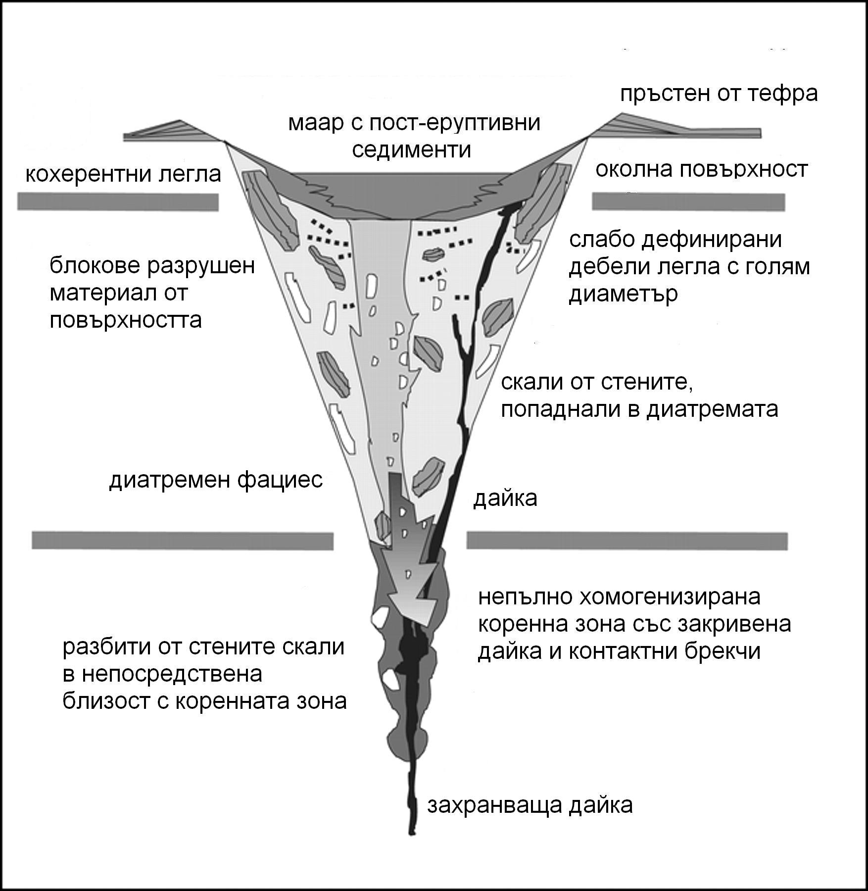 Scheme of volcanic diatreme